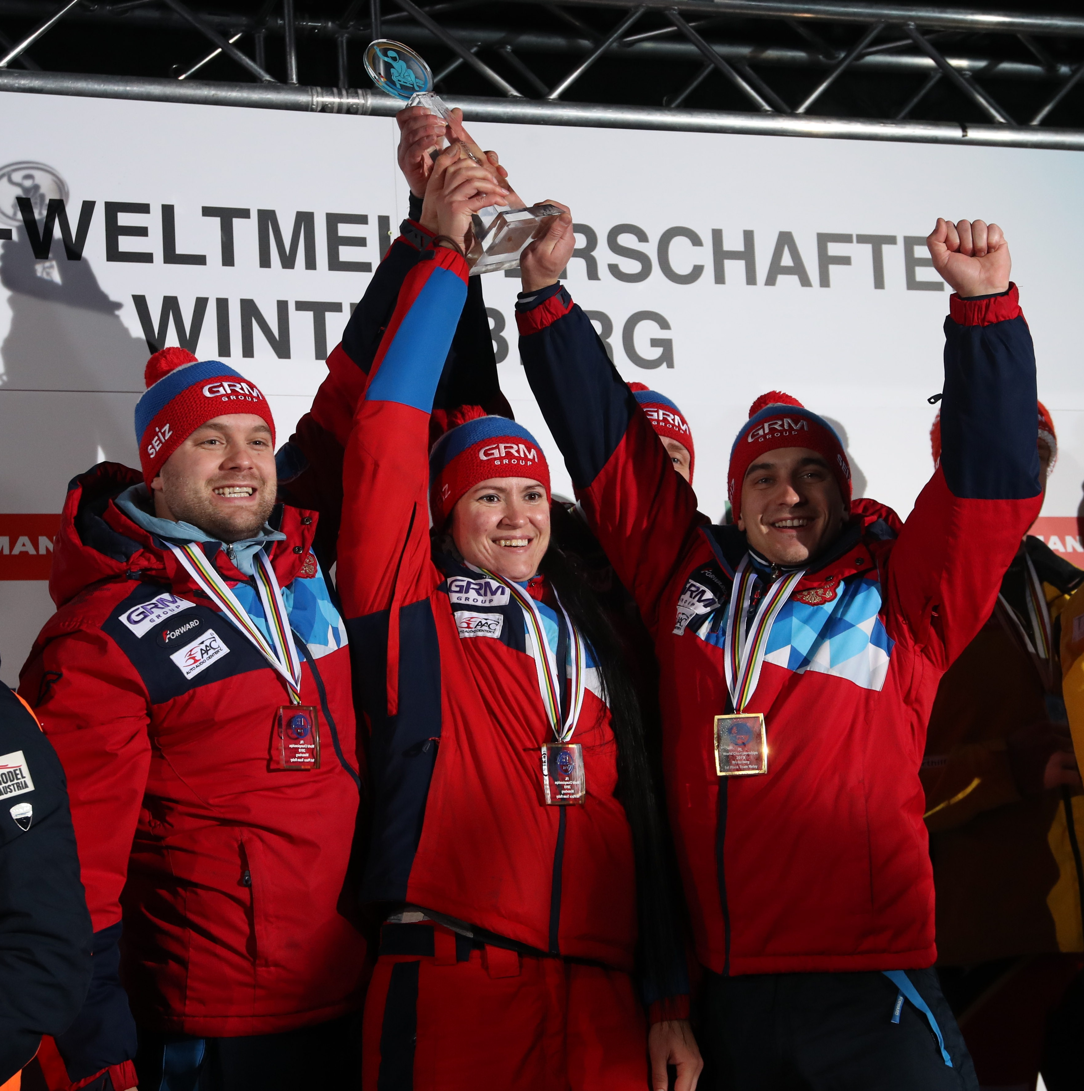 Victory ceremony for the Men's and Team Relay race at the FIL World Luge Championships 2019 in Winterberg